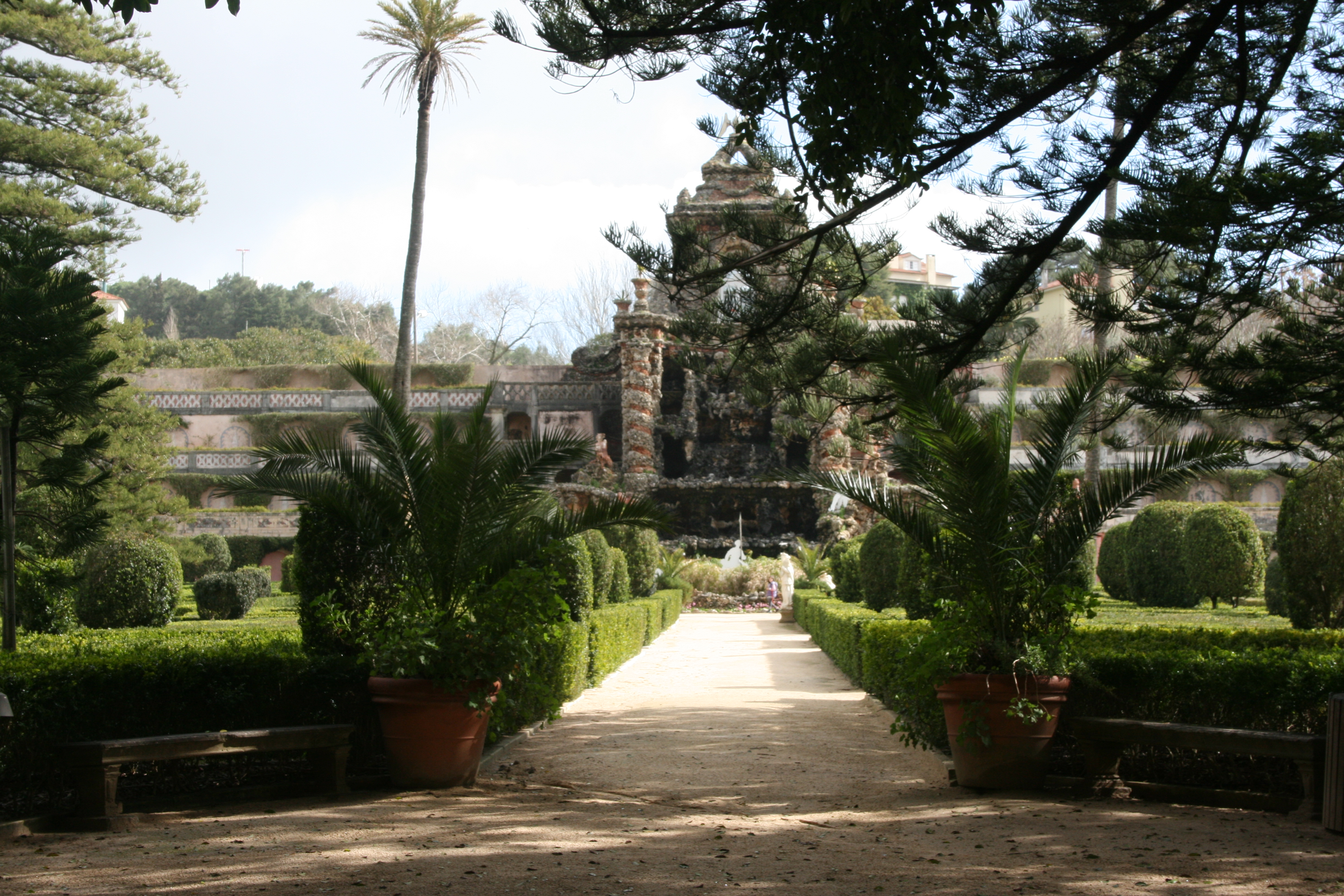 Also known as antigo Paço Real de Caxias, Oeiras, Lisboa, Portugal, UE. French-inspired gardens (Lenôtre) in a small "quinta" of the royal family of Portugal. Front view.